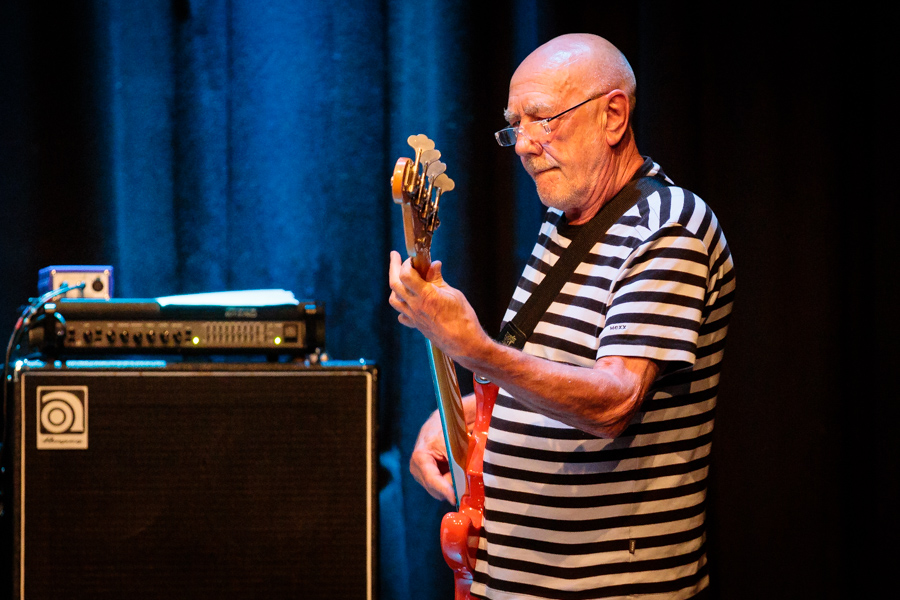 Roy Babbington with Soft Machine at Cosmopolite. The concert took place on 06. September 2018 in Oslo. Lineup: John Etheridge (guitar) Theo Travis (tenor saxophone and keyboard) Roy Babbington (bass guitar) John Marshall (drums)